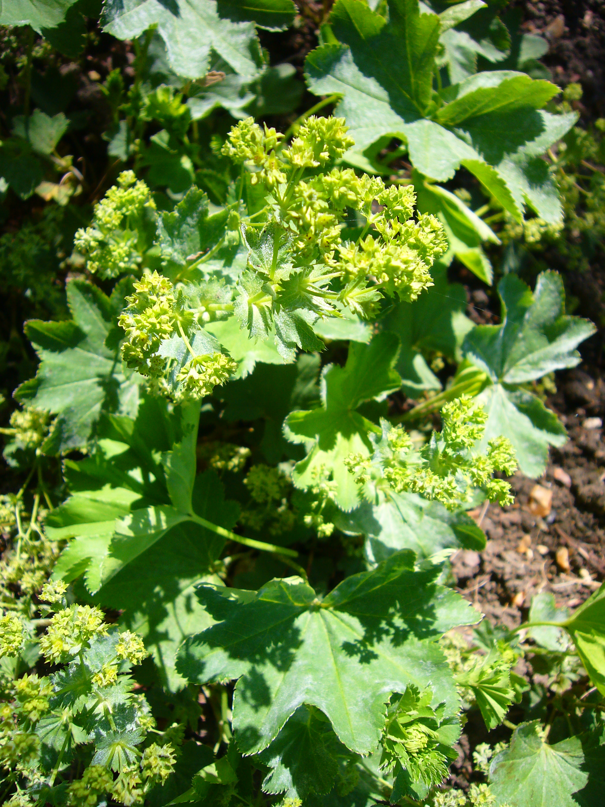 Alchemilla glabra "Smooth Lady's mantle" (flower) (photo taken in the Cambridge University Botanic Garden)